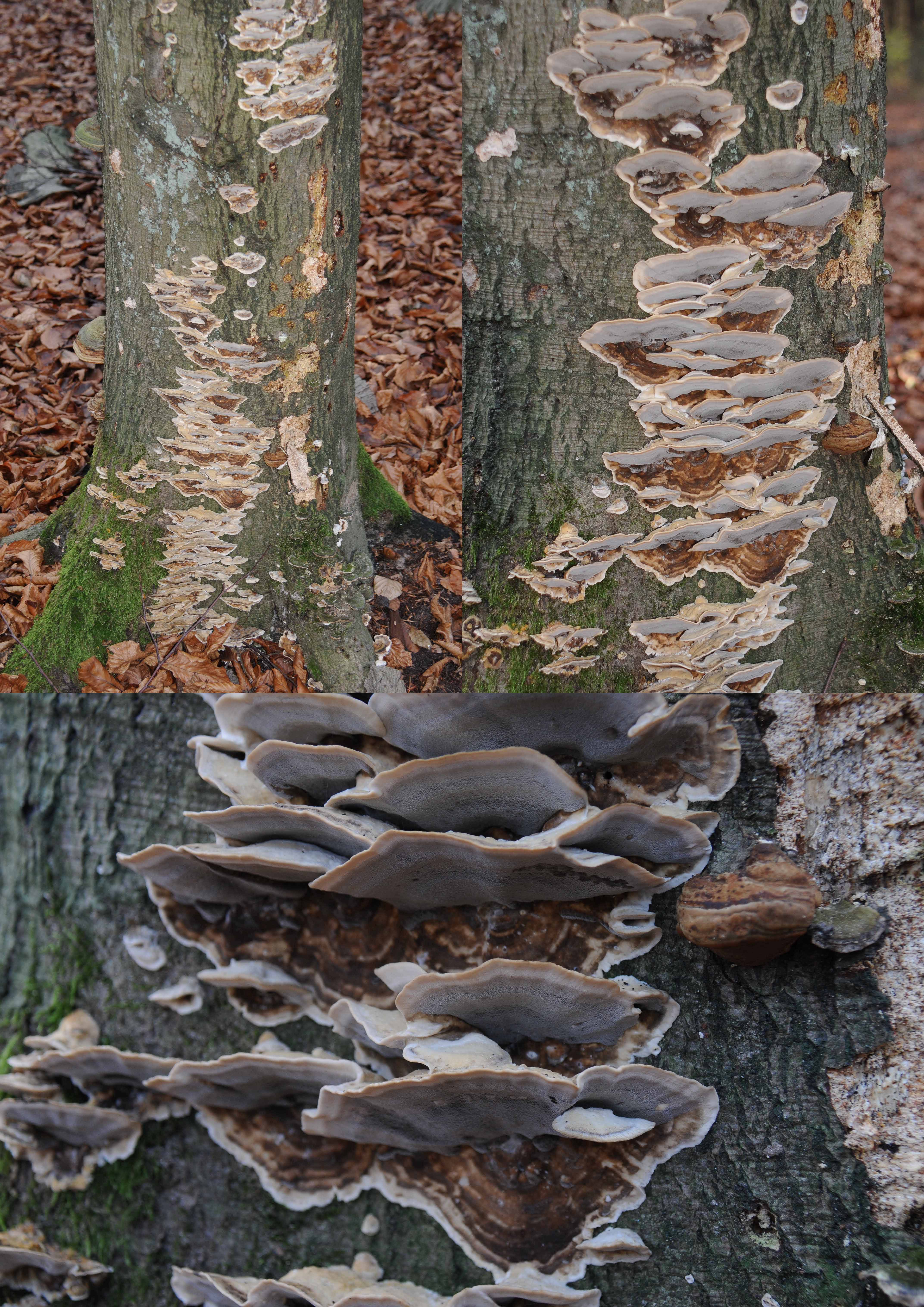 Bjerkandera adusta (Smoky Bracket, D= Angebrannter Rauchporling, F= Polypore brûlé, NL= Grijze buisjeszwam) white spores and causes white rot at Rozendaal